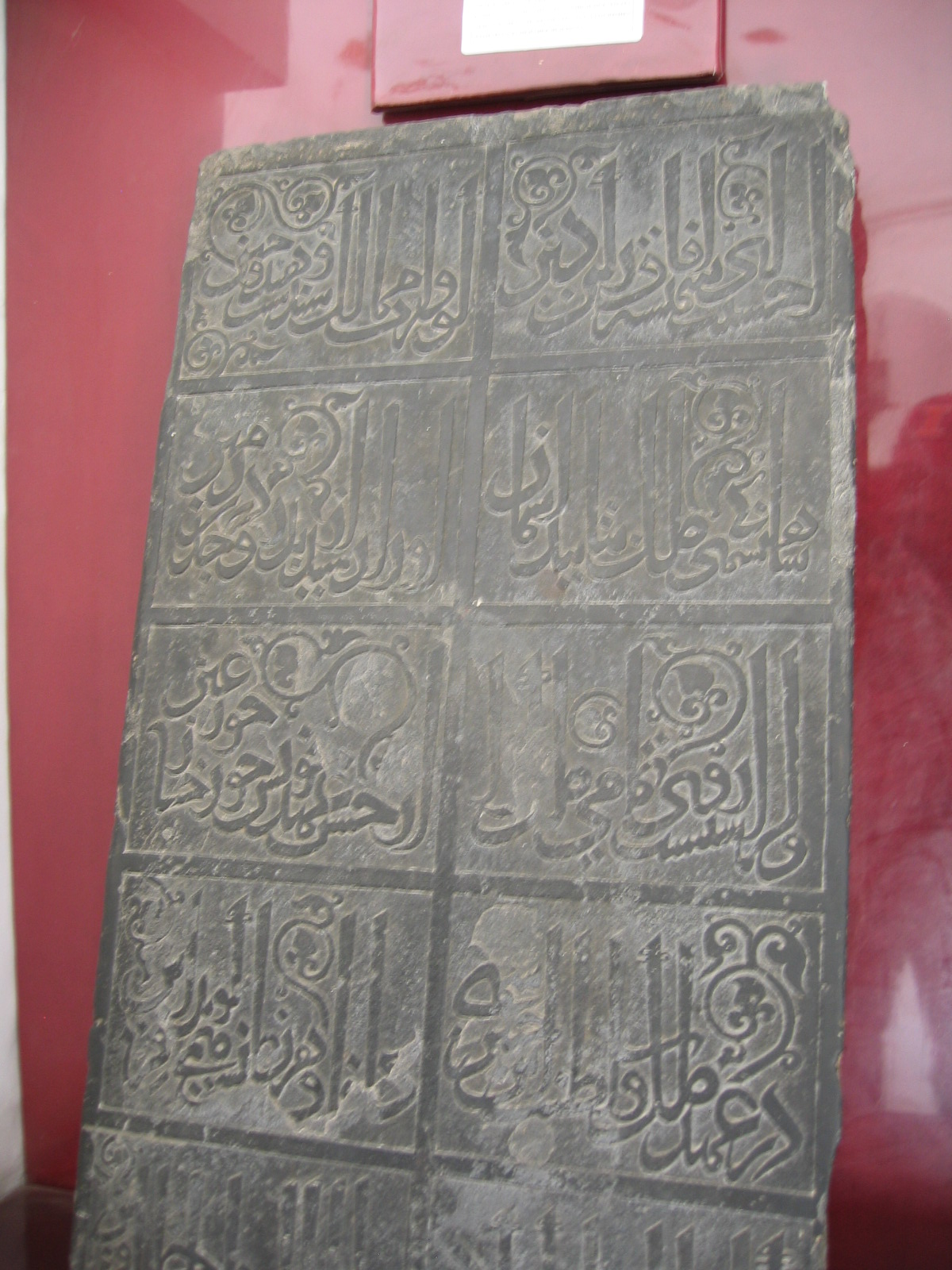 This is an exhibit from the museum at Lalbagh Fort, Dhaka. The writings seem to be either Farsi, or Arabic.Exhibit at Lalbagh Fort, Dhaka